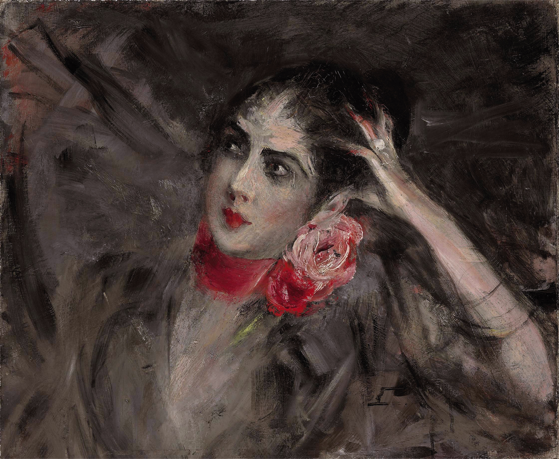 Princess Catherine Radziwill with a red ribbon around her neck with inscription by the artist's wife 'no. 60 rue At. Boldini/Emilia Boldini Cardonay' (on the reverse) oil on canvas 47 x 56.5 cm.